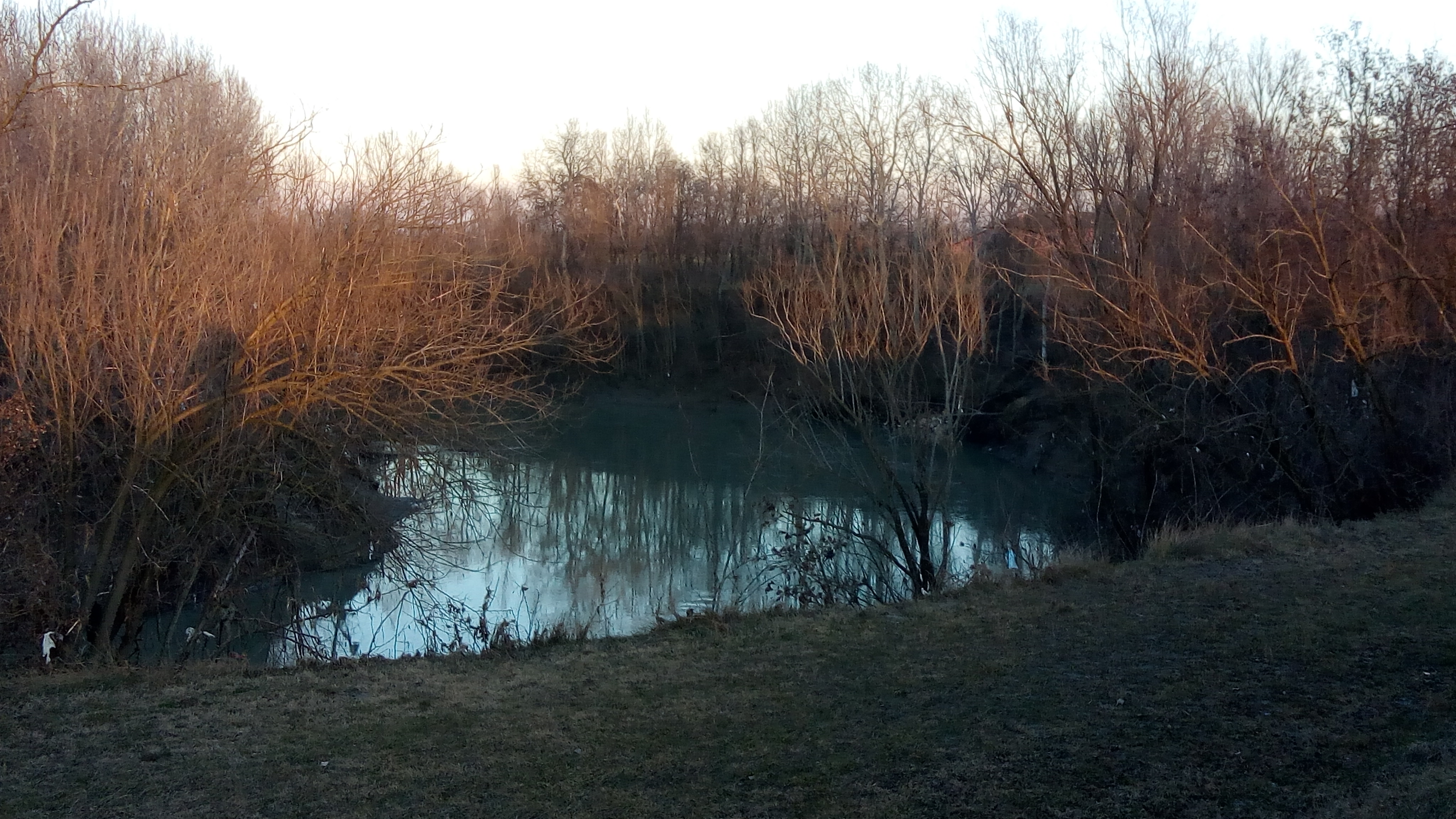 Taro River close to Copezzato